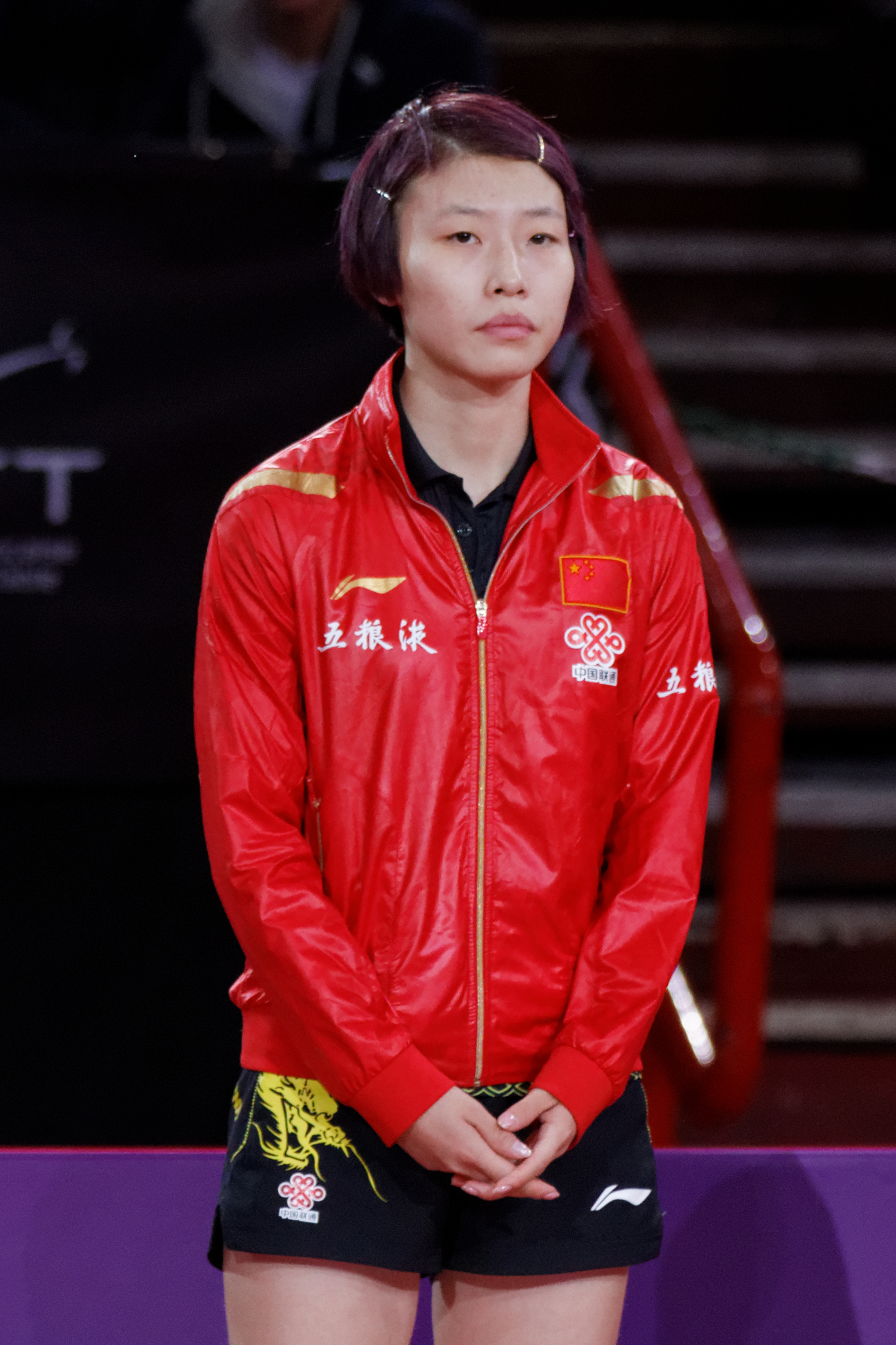 2013 World Table Tennis Championships, Paris. Women's Singles Quarterfinal.Wu Yang vs Li Xiaoxia.